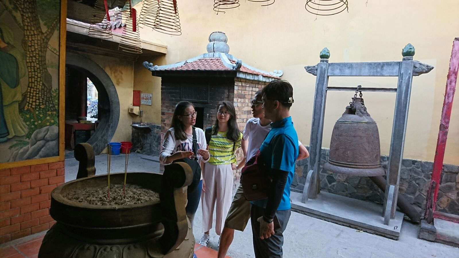 Miếu Nhị Phủ, Saigon Hotpot tourguides